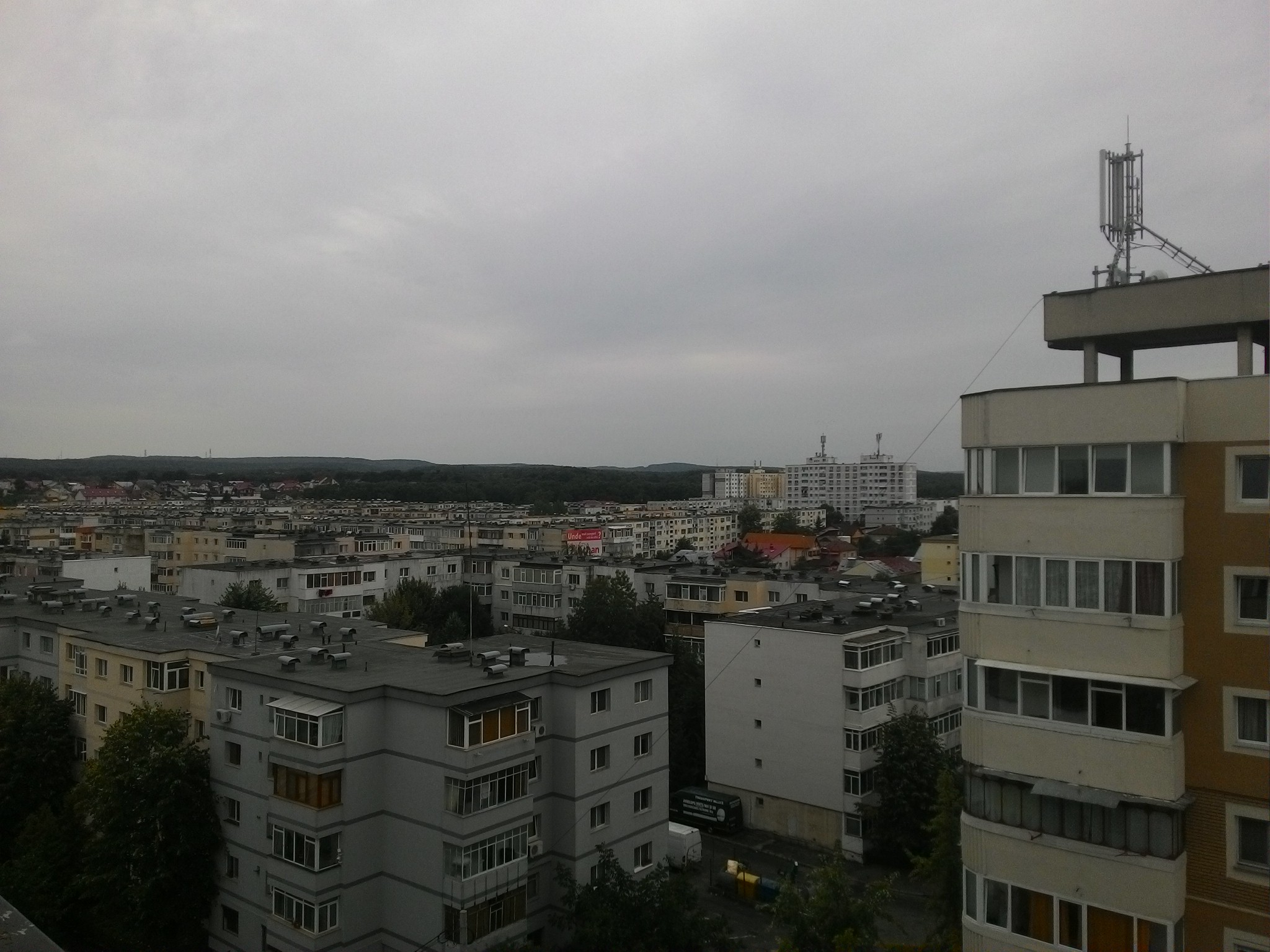 Priveliste a cartierului Gavana din Pitesti. Poza facuta din blocul T4